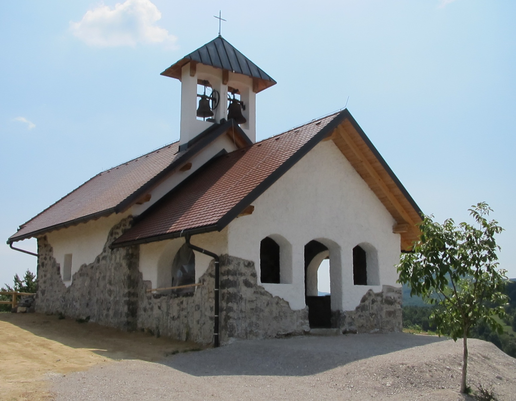 Divine Savior Church being reconstructed in 2012 in the village of Ajbelj, Municipality of Kostel, Slovenia